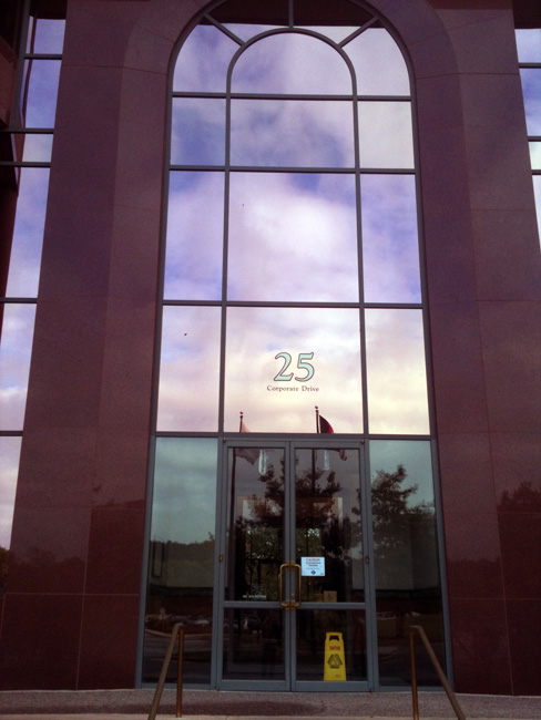 Entrance of the Organization for the Advancement of Structured Information Standards (OASIS) office at 25 Corporate Drive Suite 103 Burlington, MA 01803-4238 USA